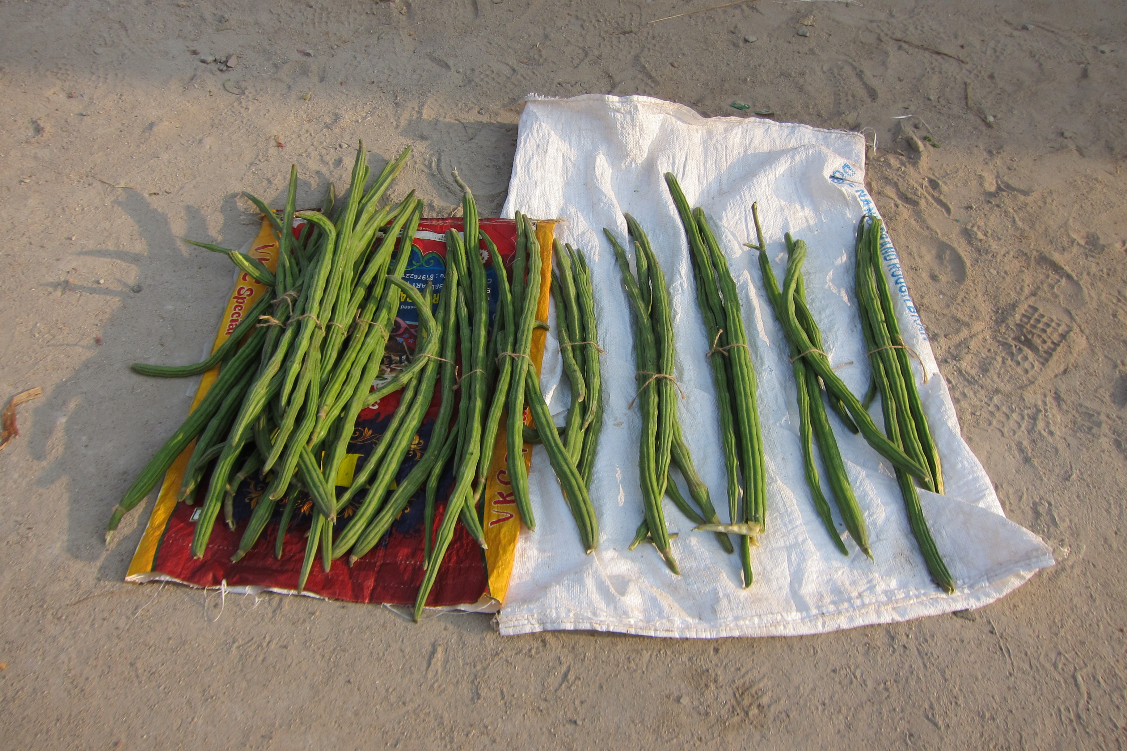 Drumstick vegetable pods for sale at village market in South India